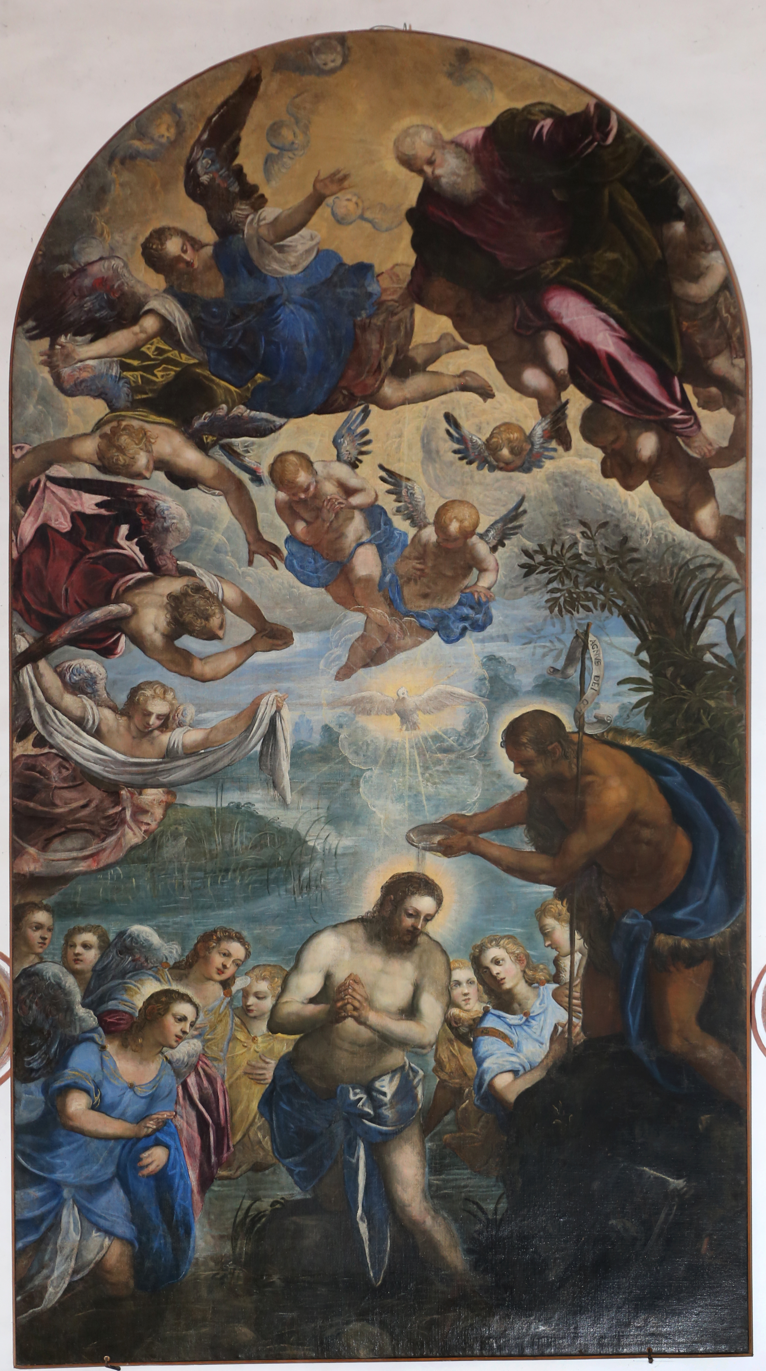 San Pietro Martire (Murano)